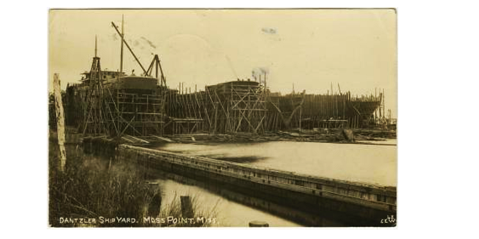 "Dantzler Shipyard. Moss Point, Miss."